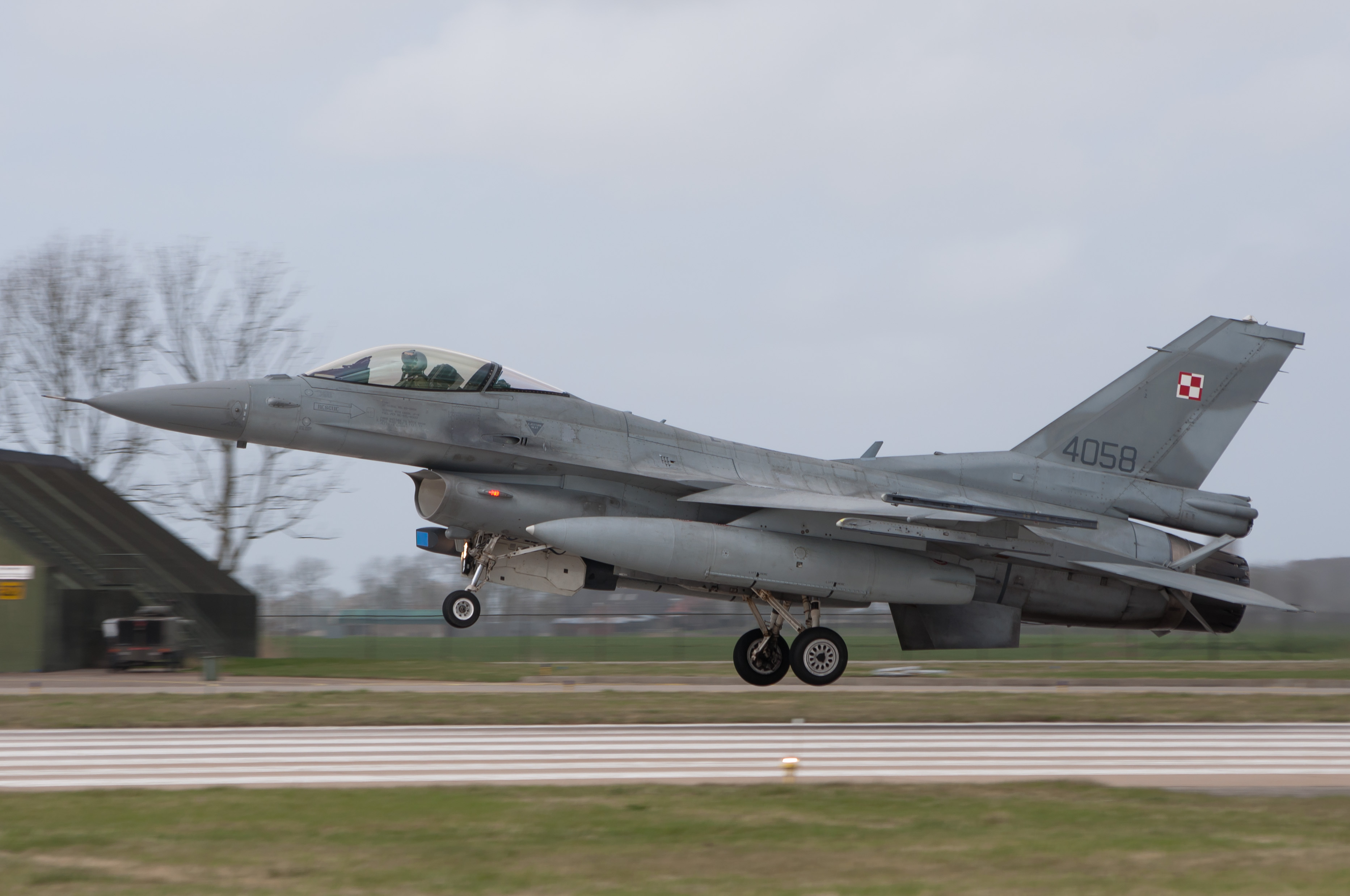 Polish Air Force (4058) F-16C Fighting Falcon